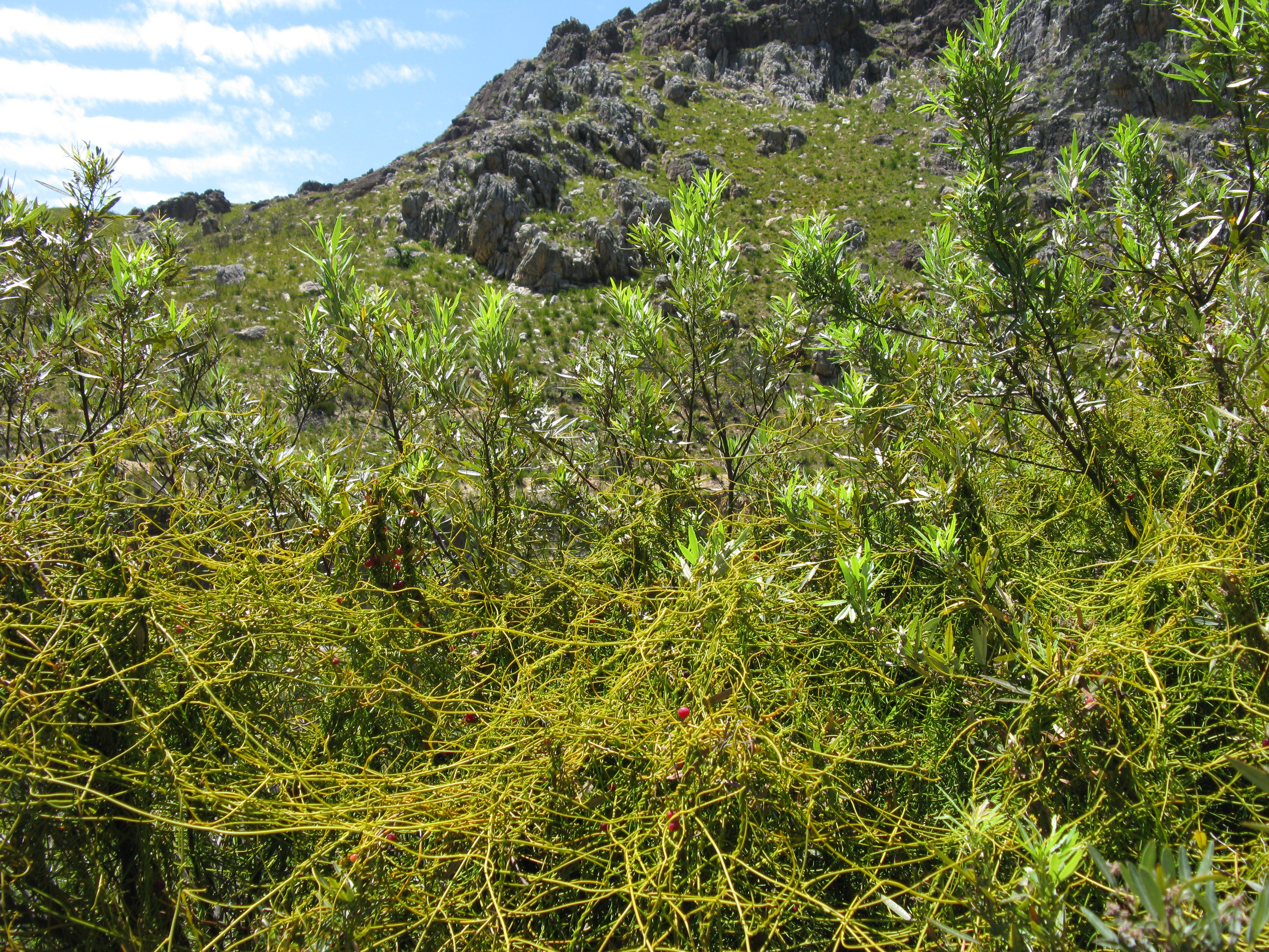 Cassytha ciliolata on Searsia angustifolia in the Franschhoek Pass